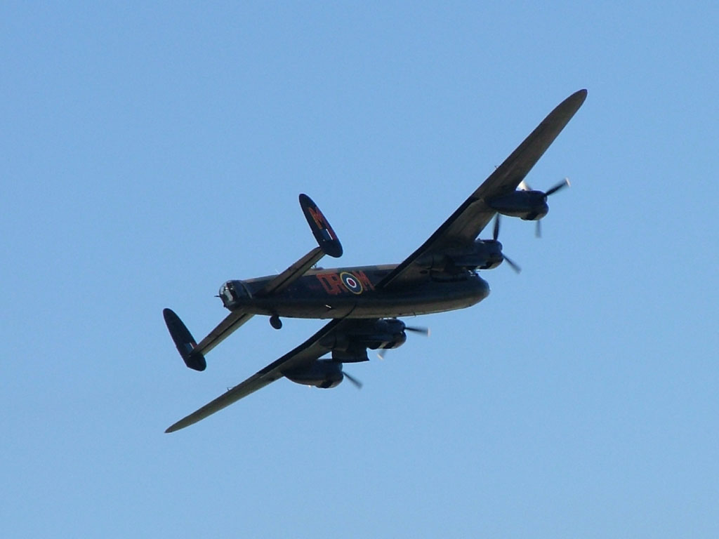 Avro Lancaster of the Battle of Britain Memorial Flight at Royal International Air Tattoo 2005. .